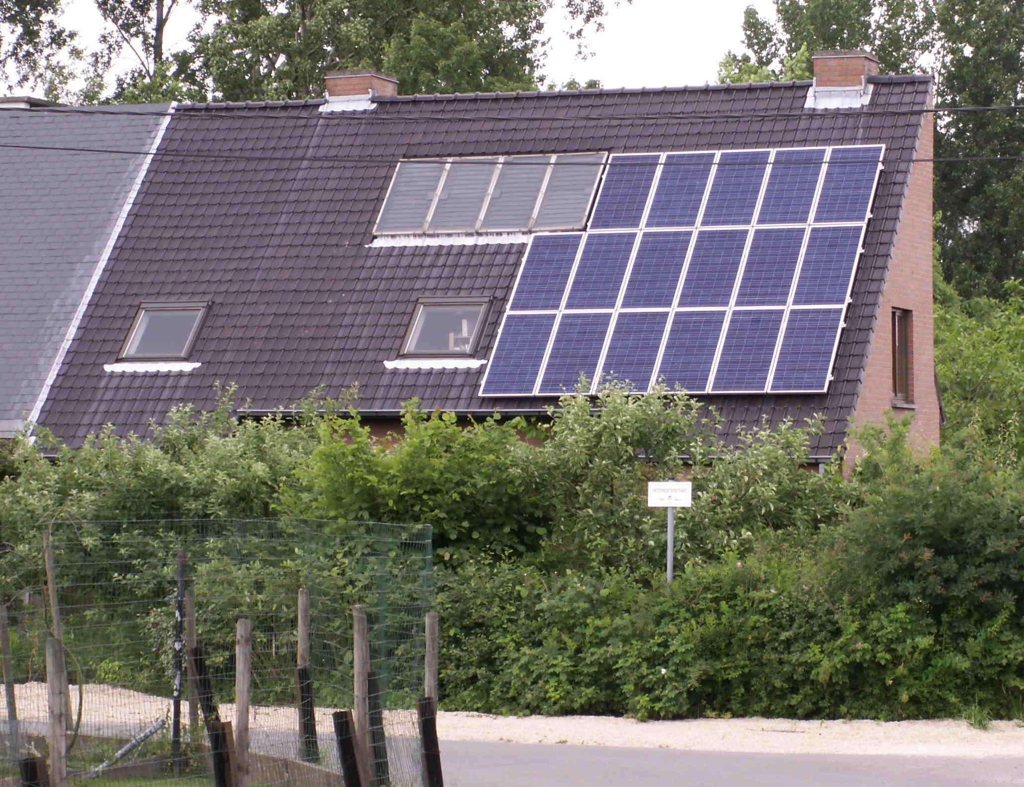 A picture of a house fitted with both photovoltaic (PV) and thermodynamic panels. The PV-panels are the blue ones, located along the right edge of the roof, and the thermodynamic panels are the black boxes with horizontal lines (pipes) directly above the right-most skylight (window).